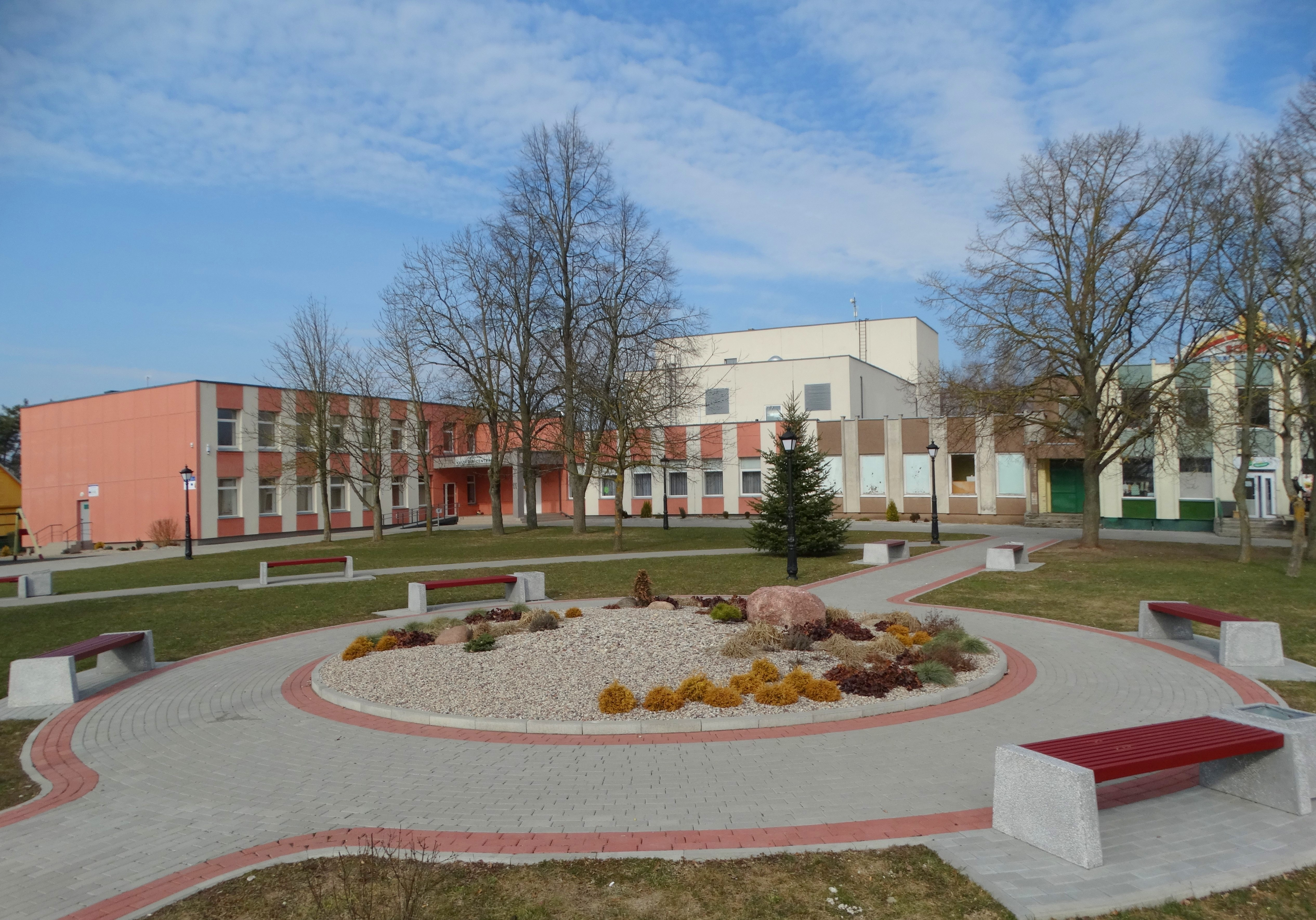 Square by centre of culture, Josvainiai, Kėdainiai district, Lithuania